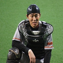 Ken Katoh